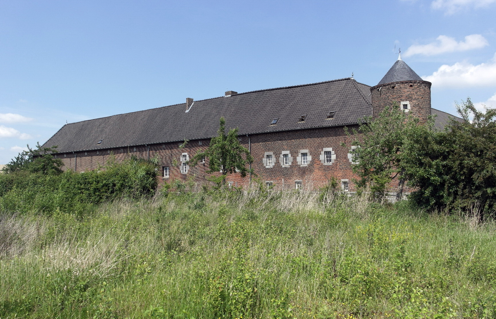 Maastricht, the Netherlands. View of the medieval tower and southwestern gable of castle farm Hartelstein near the village of Itteren in the northern tip of the municipality of Maastricht. The farm is the only remaining part of a medieval castle.